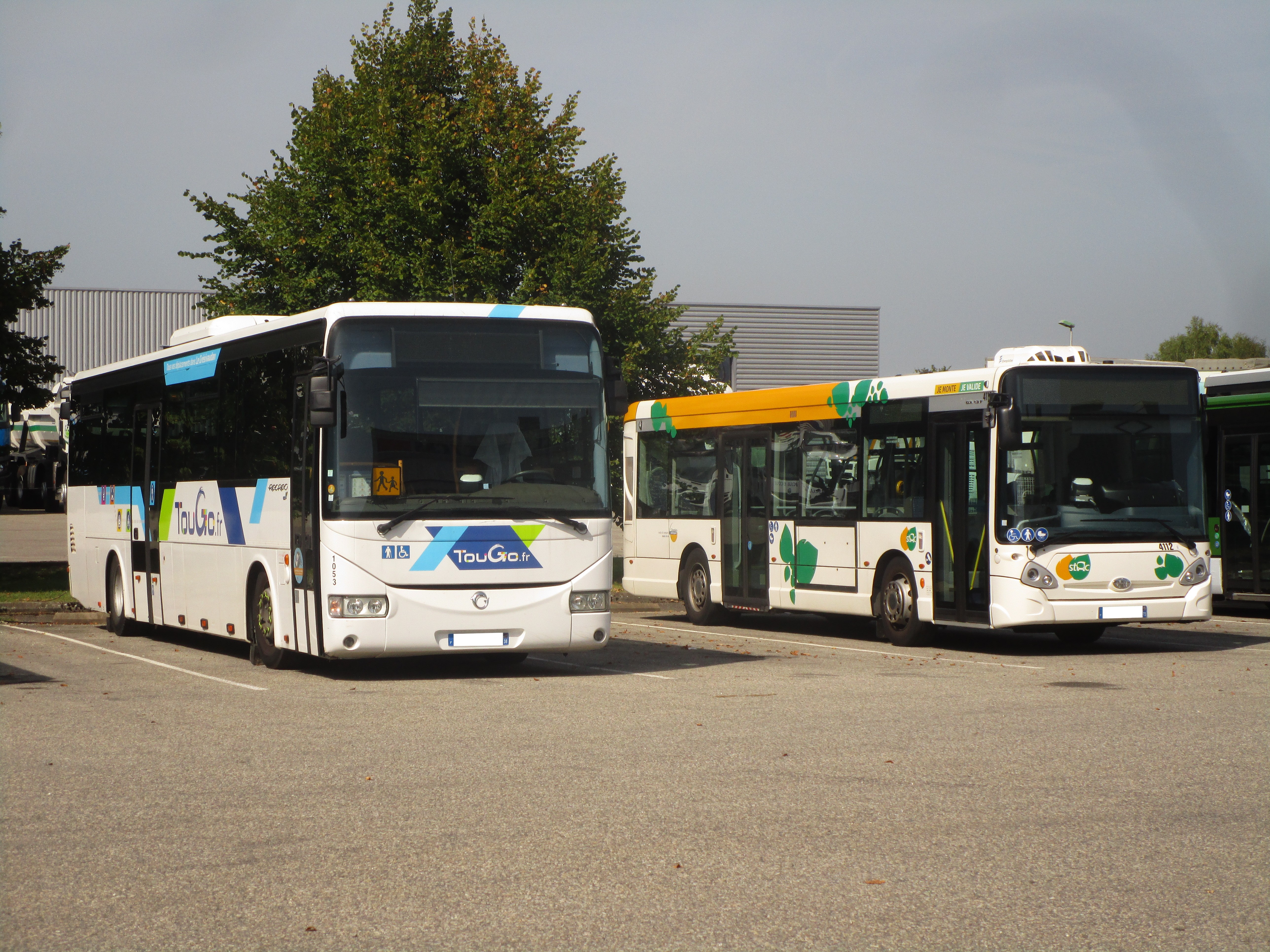 An Irisbus Récréo (n°1053 of Philibert) and an Heuliez GX 137L (n°4112 of the French agglomeration community Chambéry Métropole - Cœur des Bauges) in the stable yard of the Garage Vasseur - Renault Trucks (Voglans, France) on August 28, 2017.